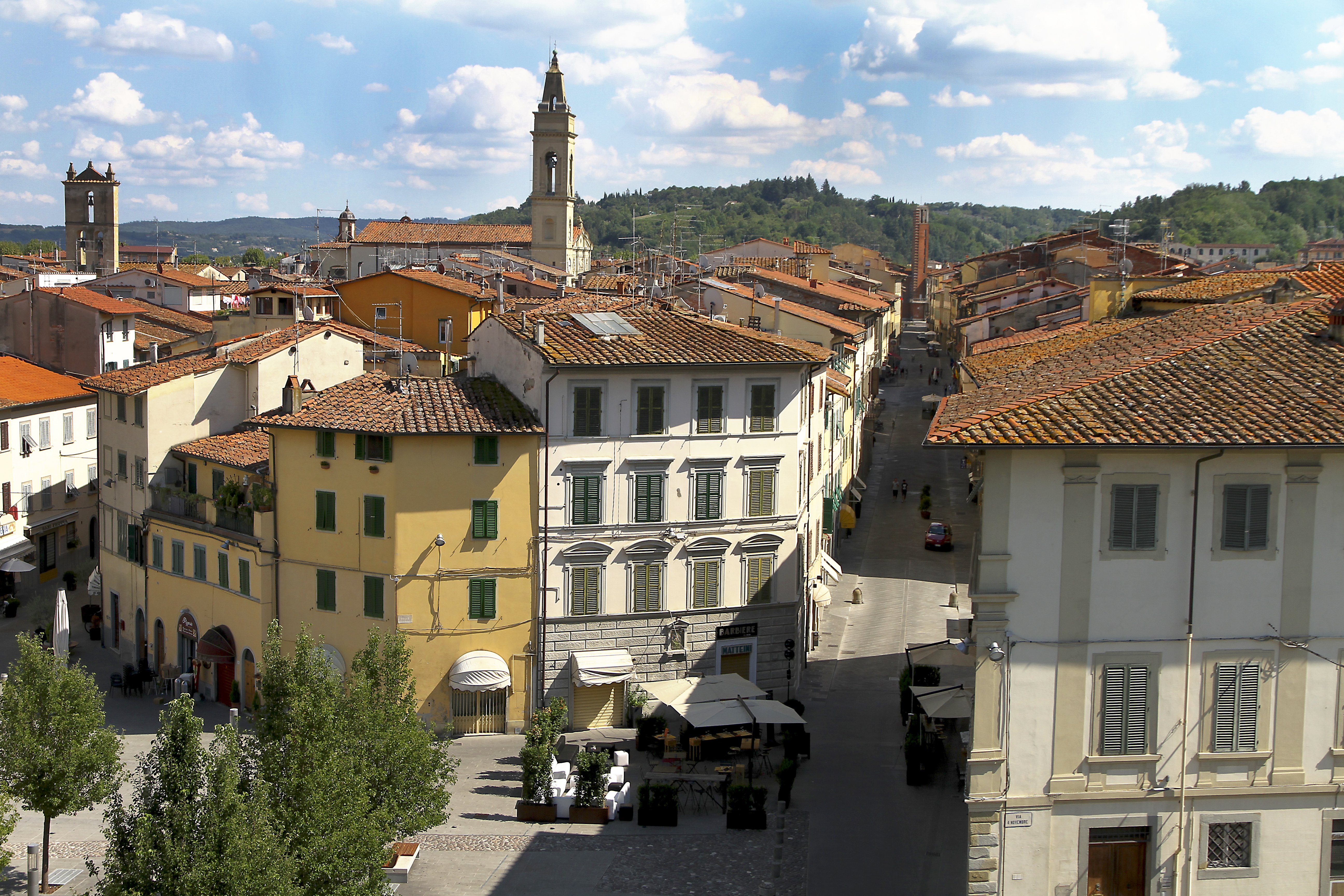 Cityscapes of Montevarchi (from "Mostra Fotografica: quattro passi in centro” sept 2015 ) photographer : Brunero Cicogni